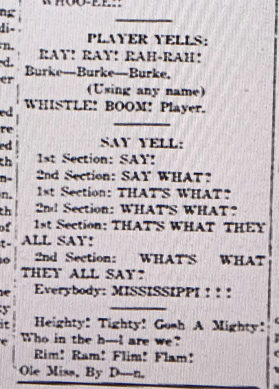 The first time the Hotty Toddy Appears in print